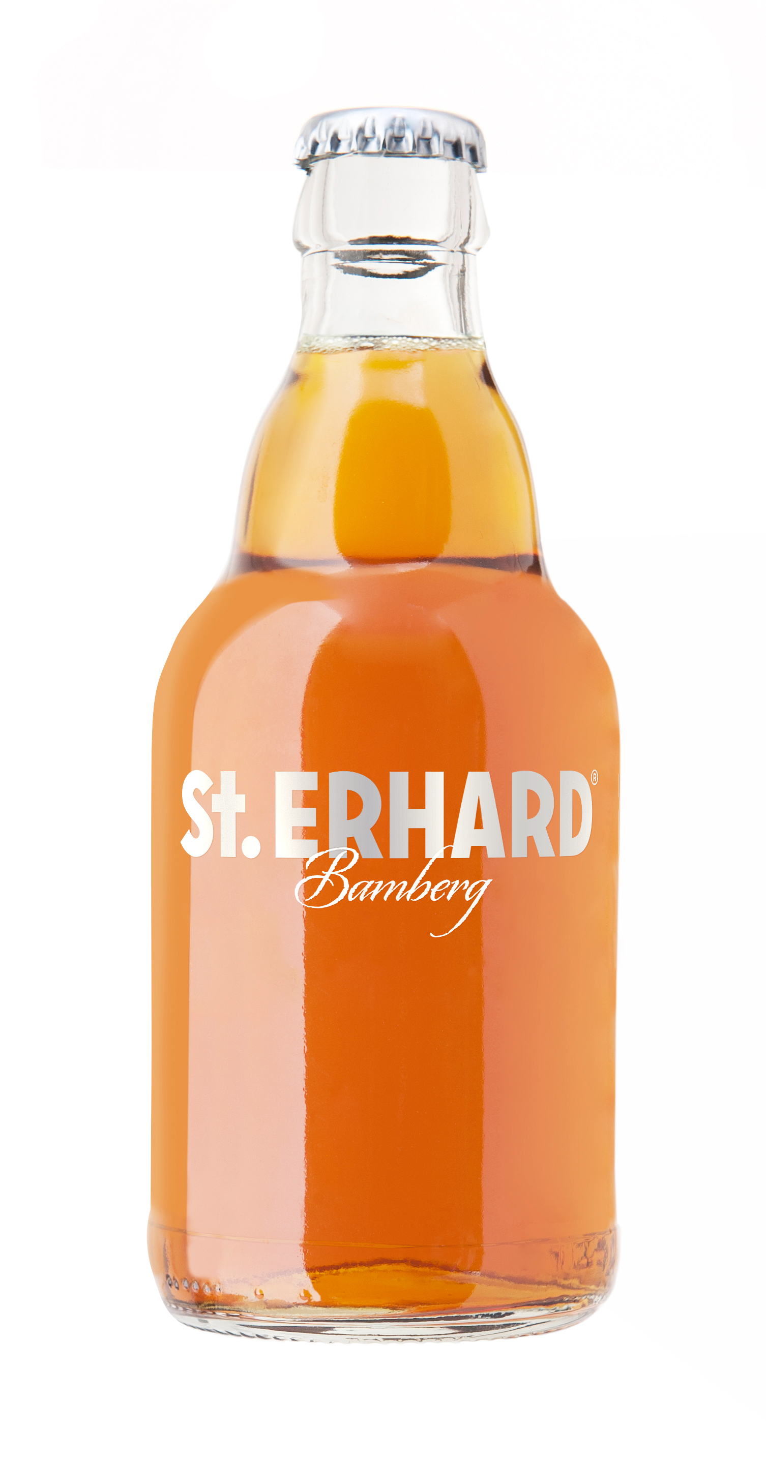 Image of St. ERHARD beer bottle